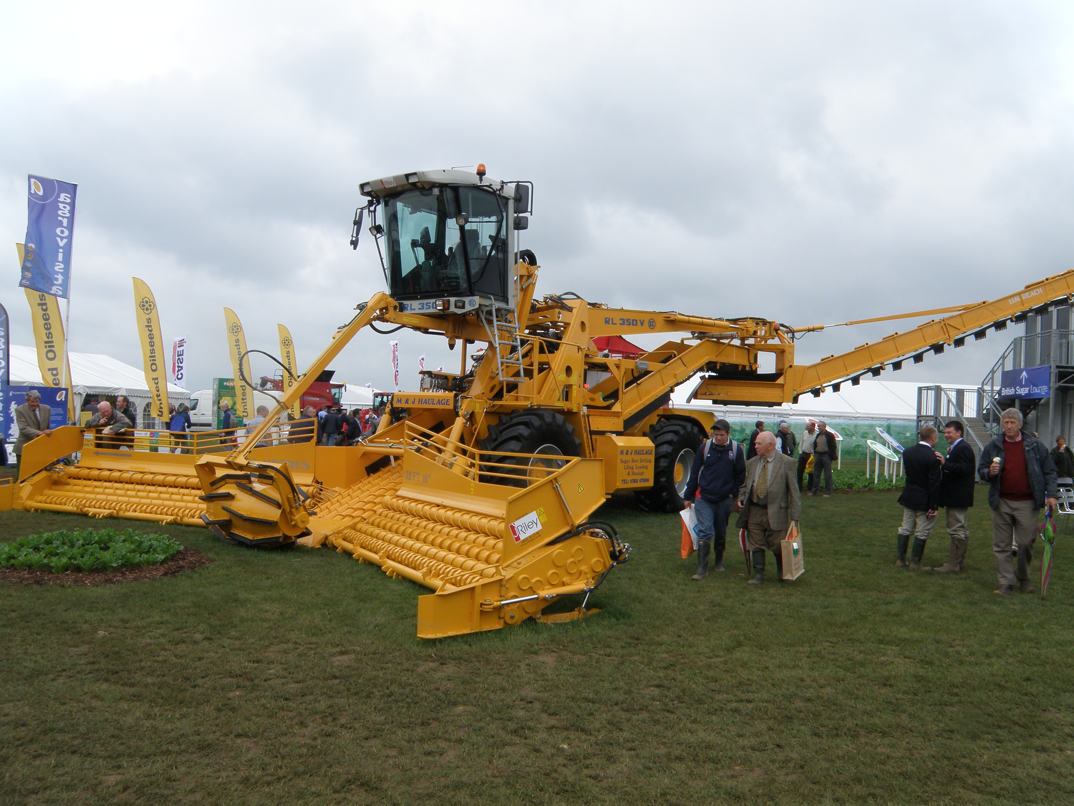 Monster machine, Cereals 2010, near to Chrishall Grange, England, Great Britain. – First of all what is it? Well it was on the British Sugar stand at the Cereals event so theres a clue. The RL 350 V is a machine for loading lorries at the sugar beet storage clamp on farms. The bed at the front has a range of augers that move the beet to the centre of the machine onto another row of spiral augers that transfer the crop back to a loading elevator, some element of cleaning may take place as the crop moves through the machine. The arm on the front has a rotating cylinder to loosen and direct beet out of the clamp. The Cereals event is a trade showcase for arable farmers and associated industries. Displays of machinery, products, latest technologies and trial plots of cereals are all laid out on a temporary show ground that moves between different host farms around Cambridgeshire, Hertfordshire and next year Lincolnshire